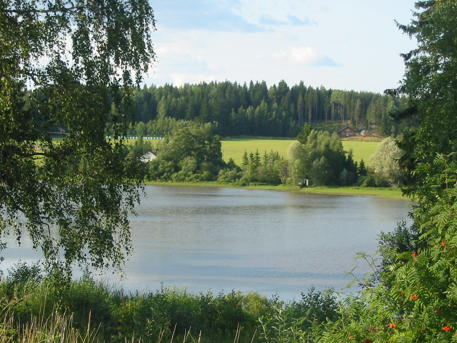 Lake Hirsjärvi in Somero, Finland, seen from south in the nearhood of Seeteri manor